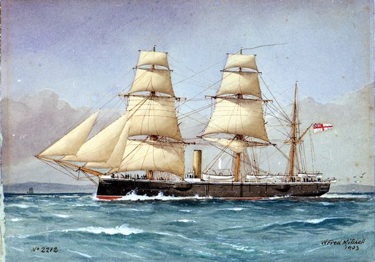 watercolour of HMS Comus (1878)